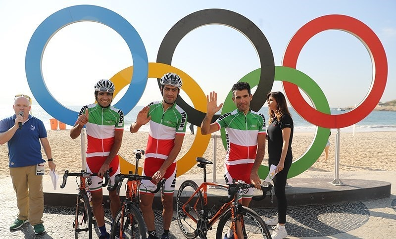 2016 Summer Olympics - Men's individual road race Cycling